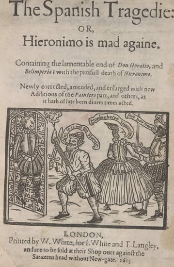 Title page of 1615 edition of The Spanish Tragedy, by Thomas Kyd